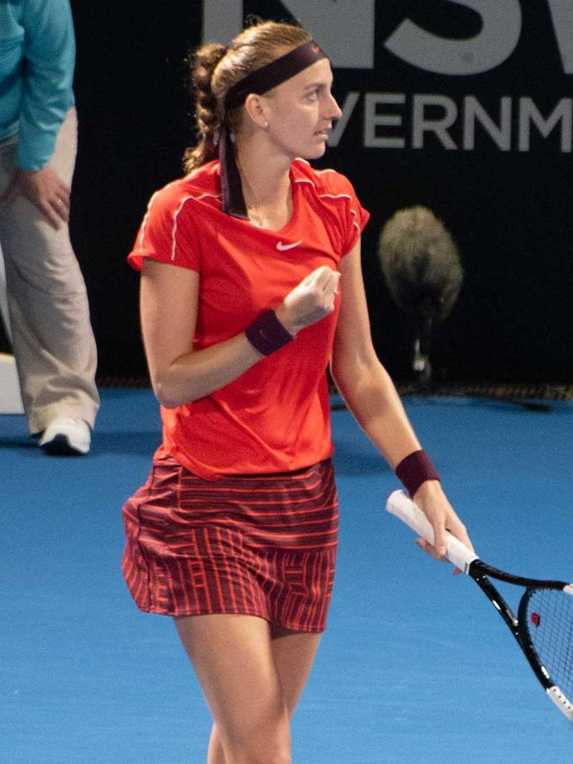 Sydney, Australia - 9 January 2019: Petra Kvitova wins her match against Su-Wei Hsieh in the second round at the Sydney International tennis. It was 12:09 am when they completed the match. (Photo by Rob Keating/robiciatennis.com)